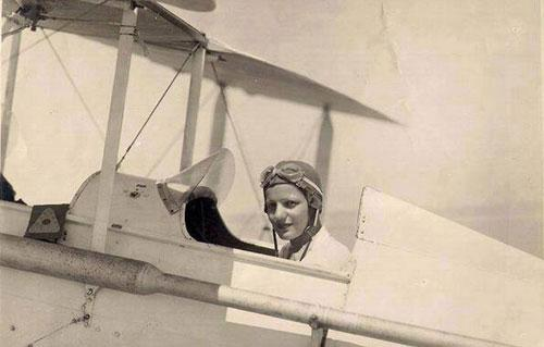 Lotfia elnady in plane